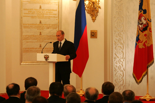 THE KREMLIN, MOSCOW. At the expanded meeting of the State Council on Russia's development strategy through to 2020.